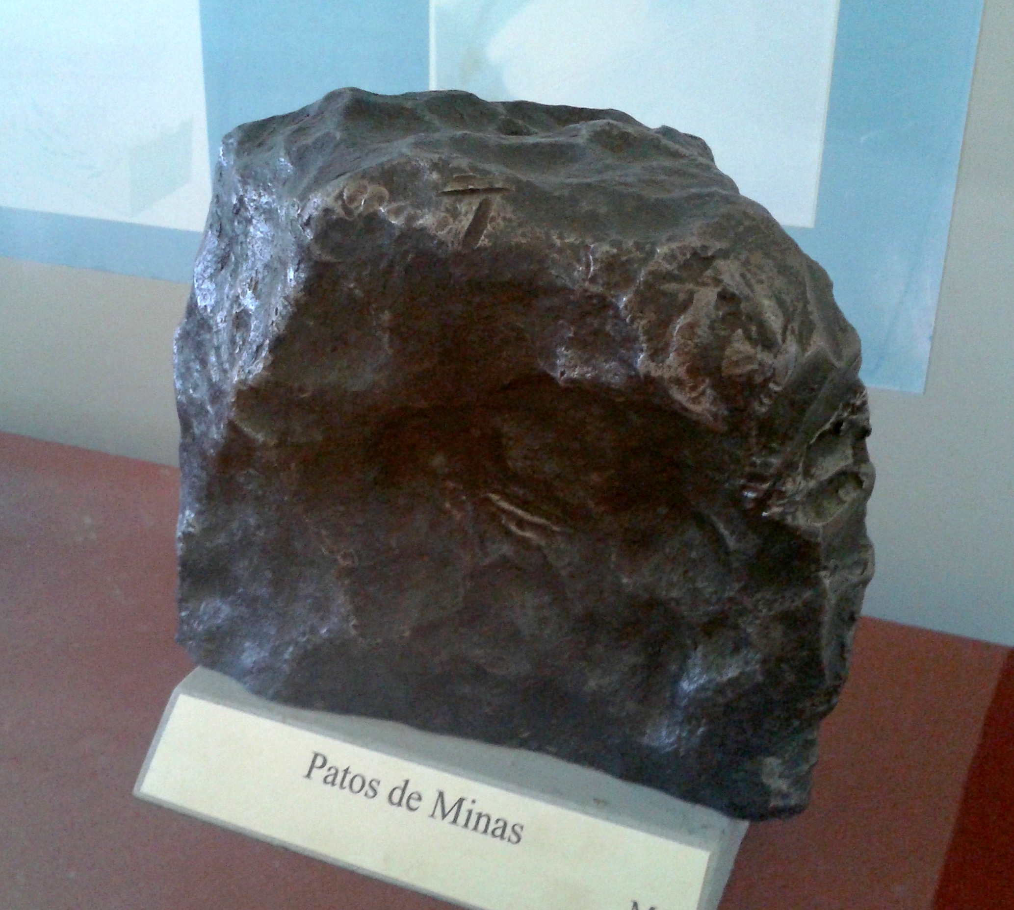 Siderite composed of iron and nickel found in Minas Gerais, Brazil, in 1925.